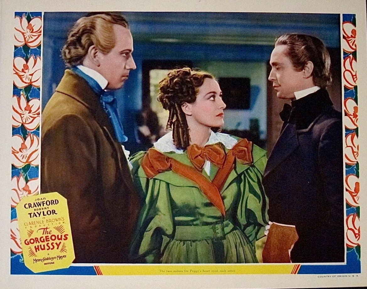 Lobby card for the 1936 film The Gorgeous Hussy.